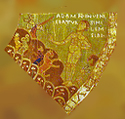 Adam. Detail Tapestry of Creation, 11th – 12th century, tapestry, 365 × 470 cm, Cathedral of Girona, Girona.